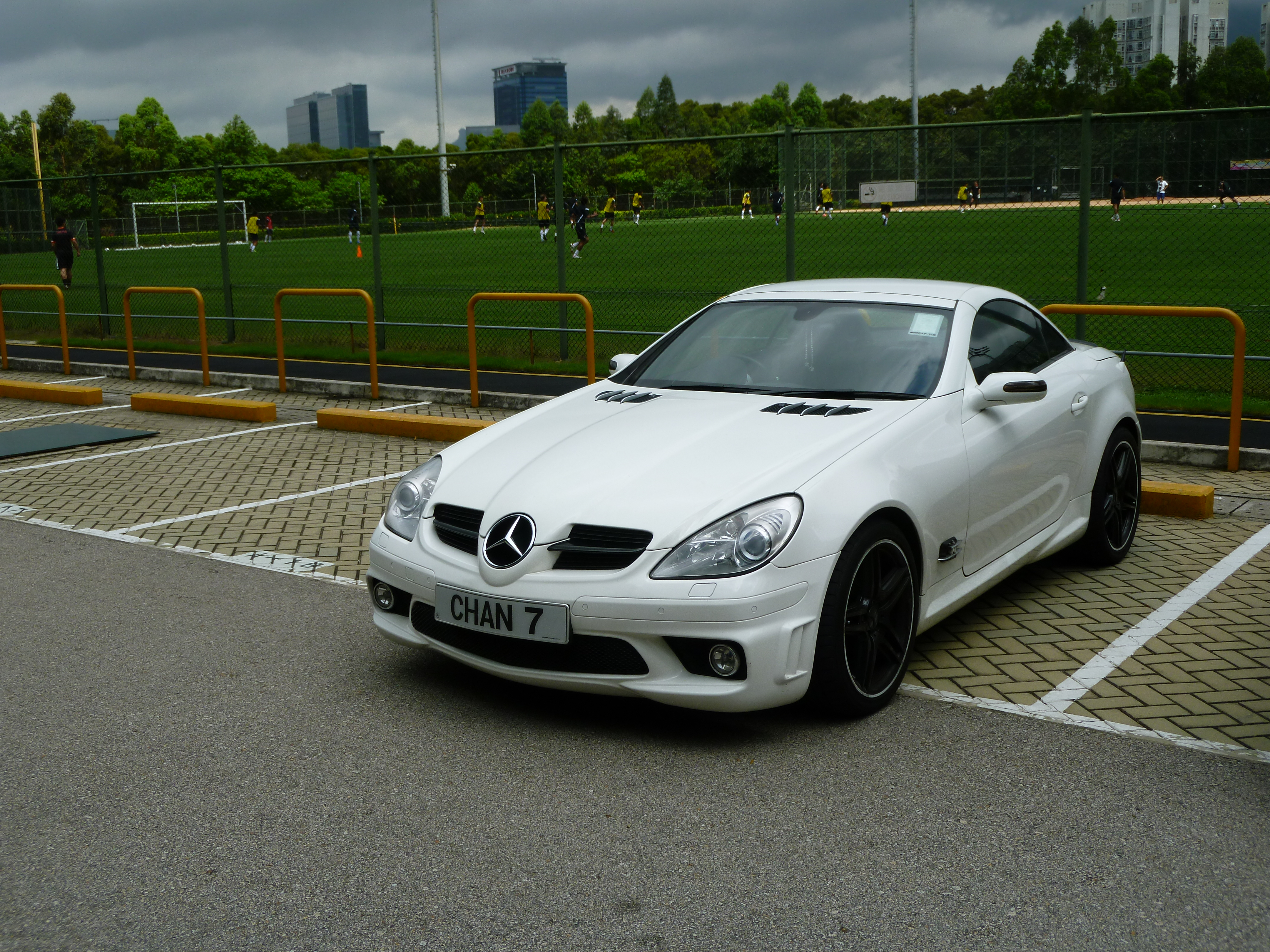 Benz SLK350 of Chan Siu Ki (Hong Kong National Football Team training session; 24 Apr 2012; Sai Tso Wan Recreation Ground, Lam Tin, Kowloon, Hong Kong)